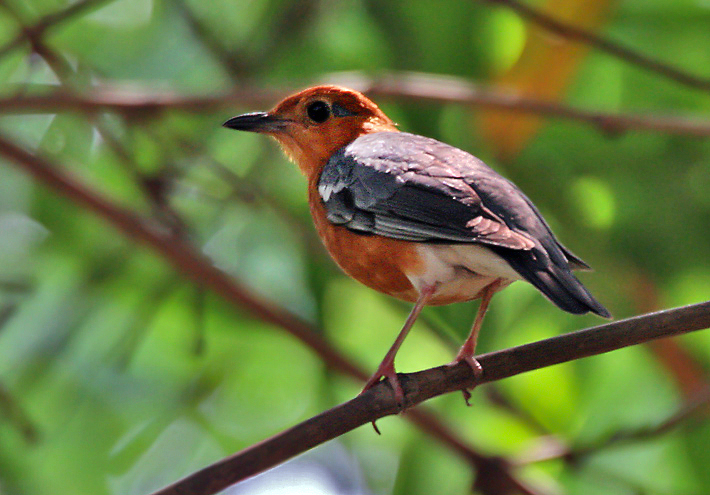 Orange-headed Thrush (Zoothera citrina) near Narendrapur in Kolkata, West Bengal, India.